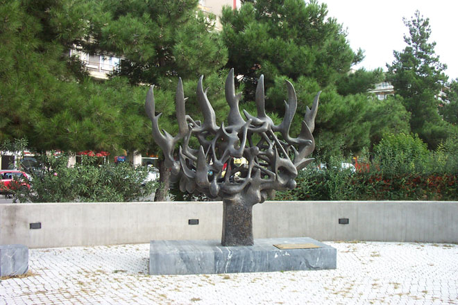 Saloniki_Holocaust_memorial. Credit: Courtesy of Arie Darzi to memorialize the Jewish community in Greece.